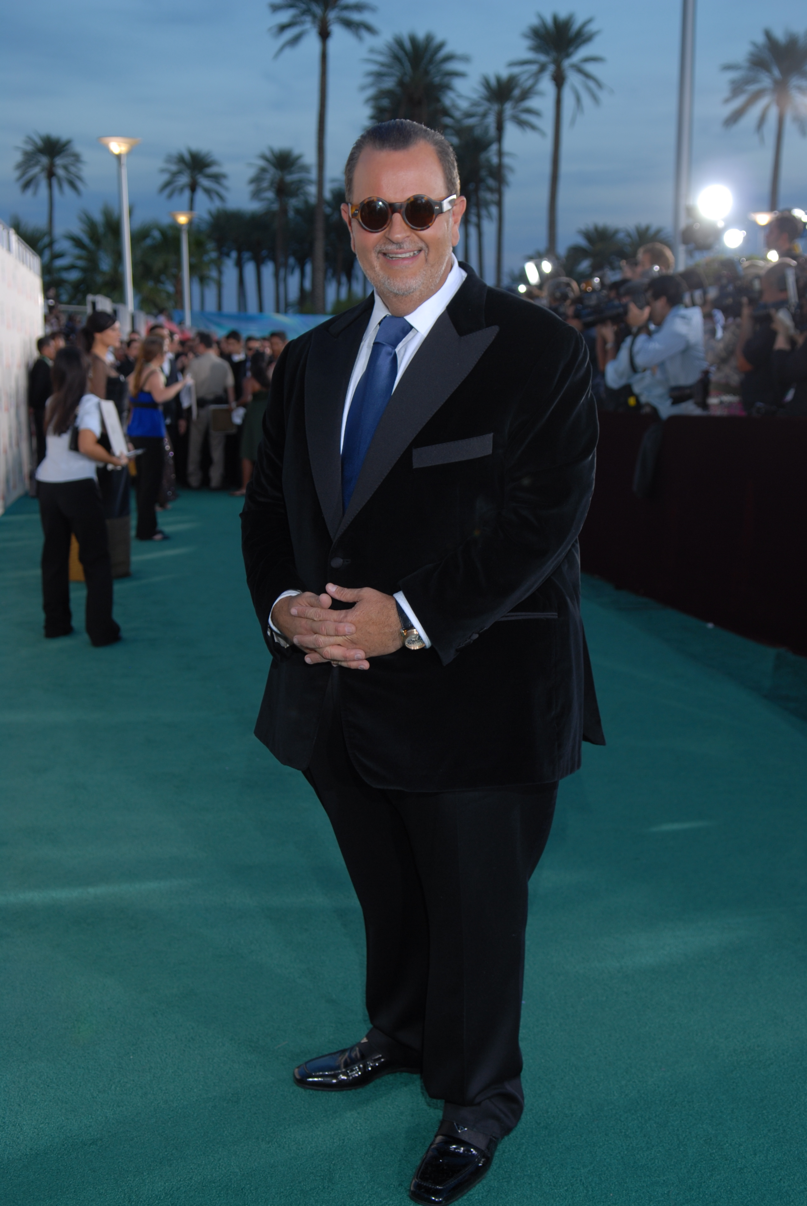 Raúl de Molina hosting the Latin Grammys pre-show